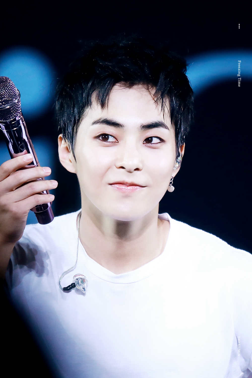 Xiumin at Exo Planet 4 – The EℓyXiOn in Macau on August 11, 2018.